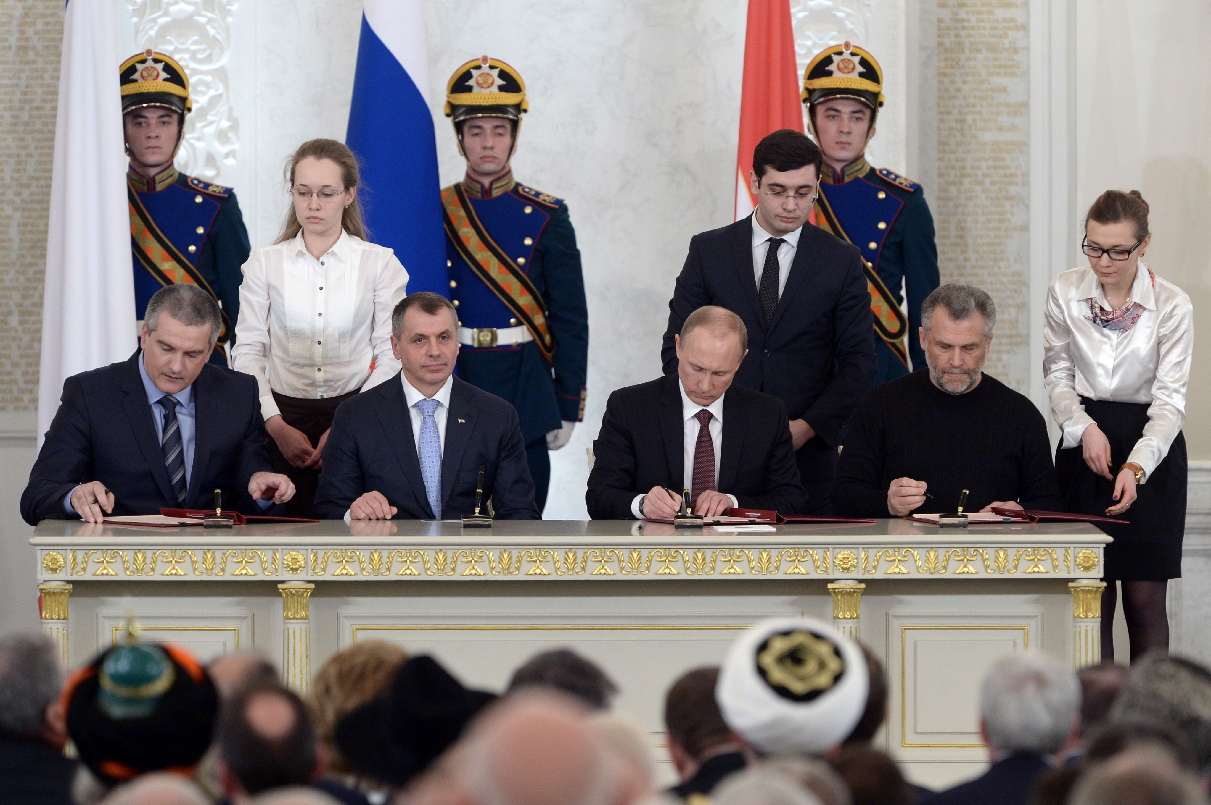 Signing of the Treaty on the adoption of the Republic of Crimea and Sevastopol to Russia. Left to right: S. Aksyonov, V. Konstantinov, V. Putin and A. Chalyi.